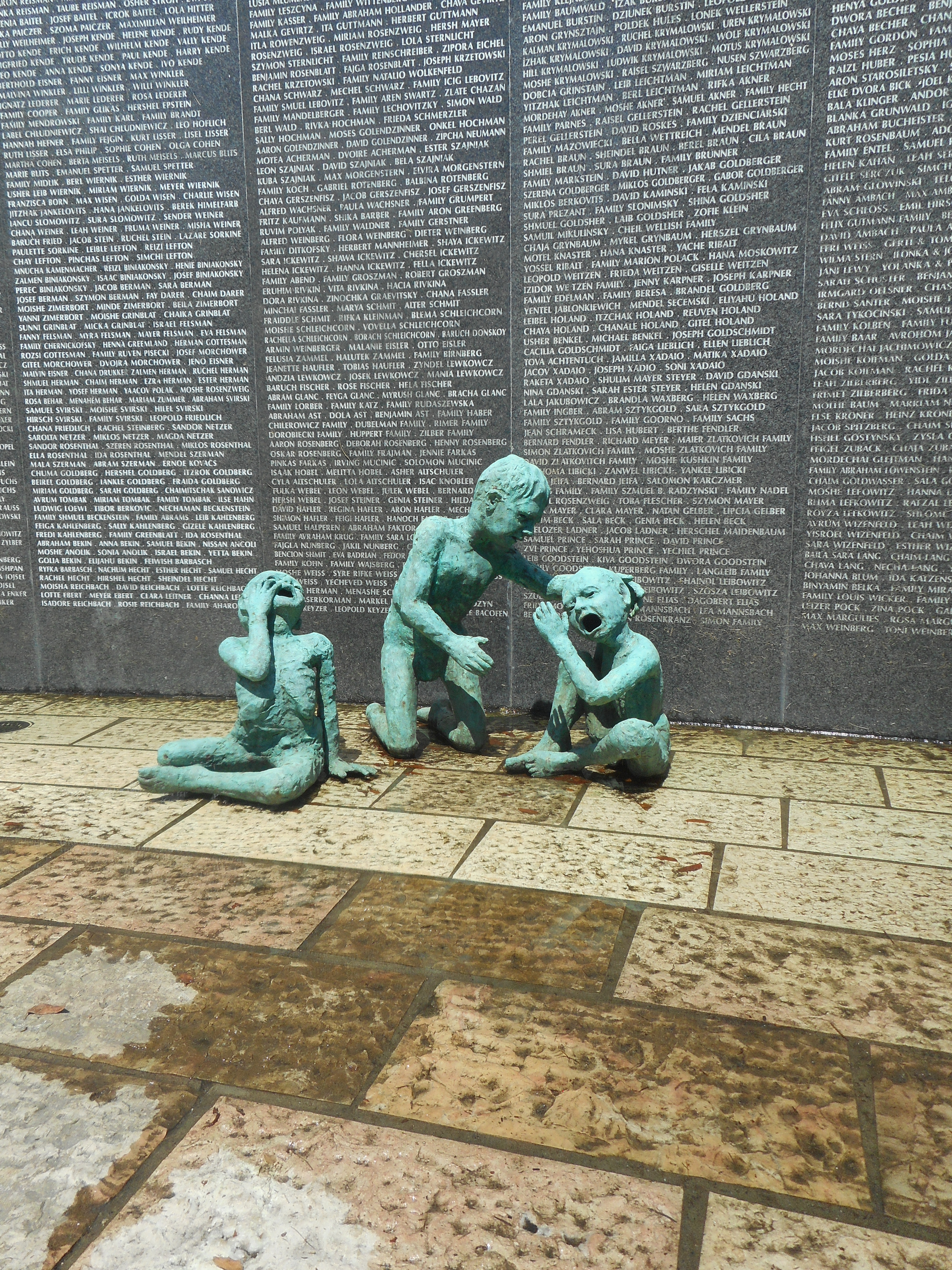 Miami Beach Holocaust Memorial